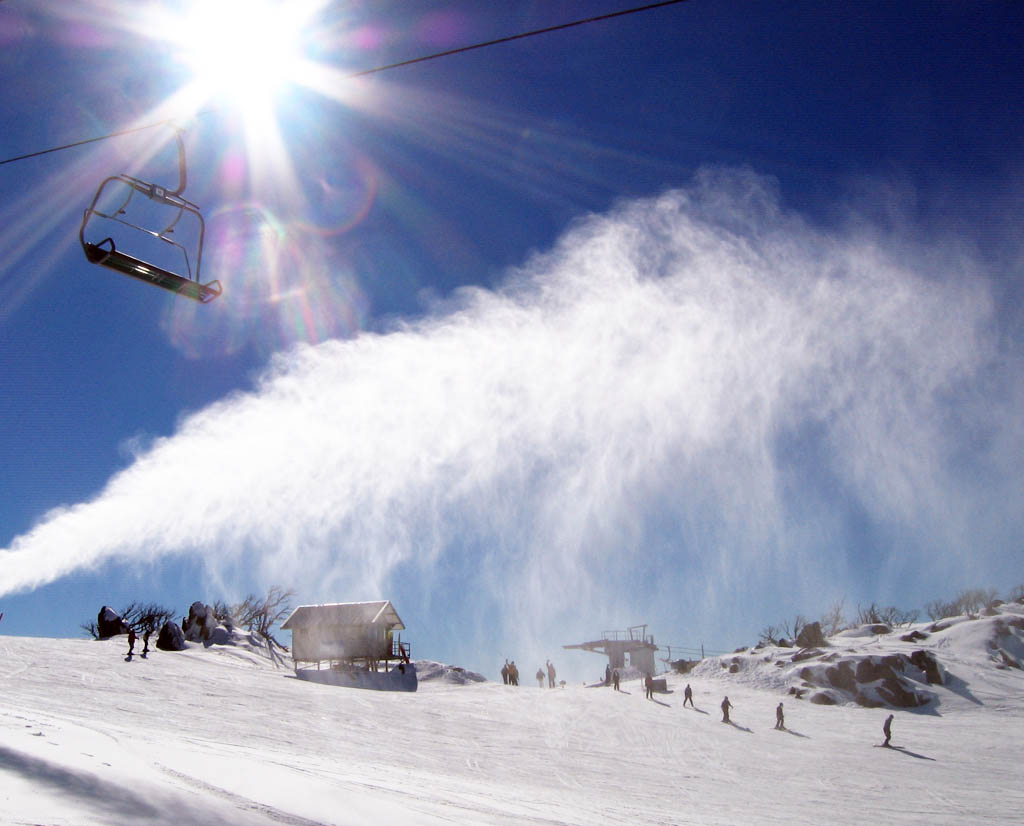 On the slopes at Mount Blue Cow, Perisher Blue Resort. It was a gorgeous day. The snow making machines were busy churning out snow all day long. You can see a stream of water vapour/snow going across this particular shot.